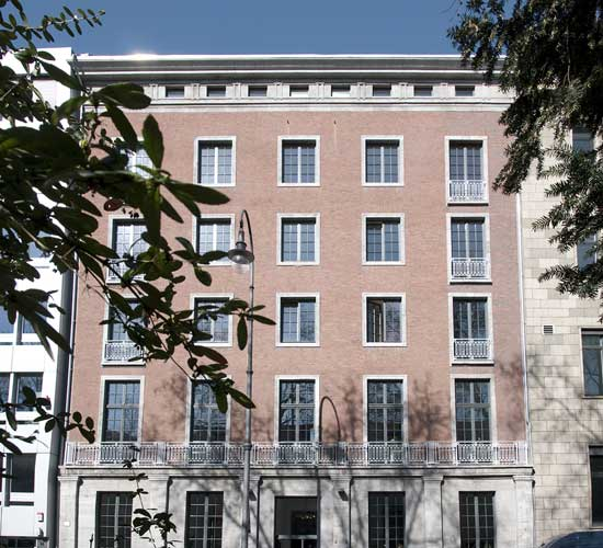 RGA branch Cologne, Germany